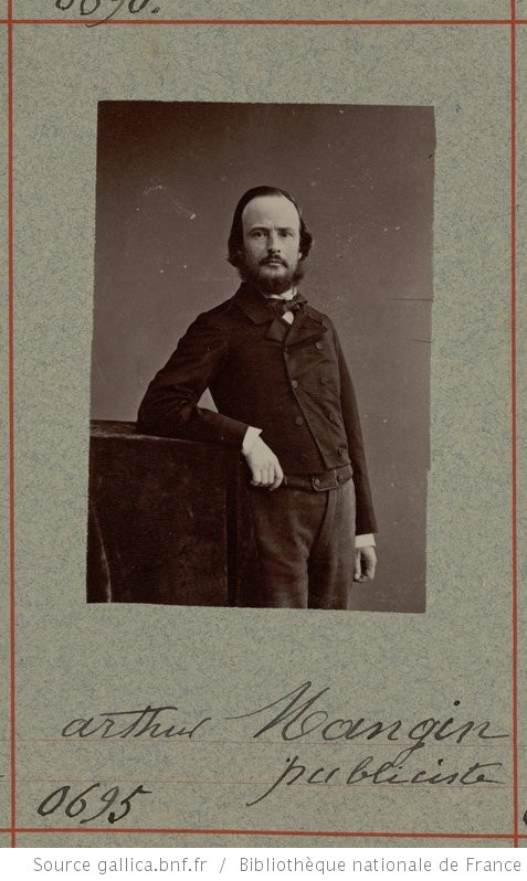 Arthur Mangin , publiciste scientifique : photographie, tirage de démonstration, Atelier Nadar